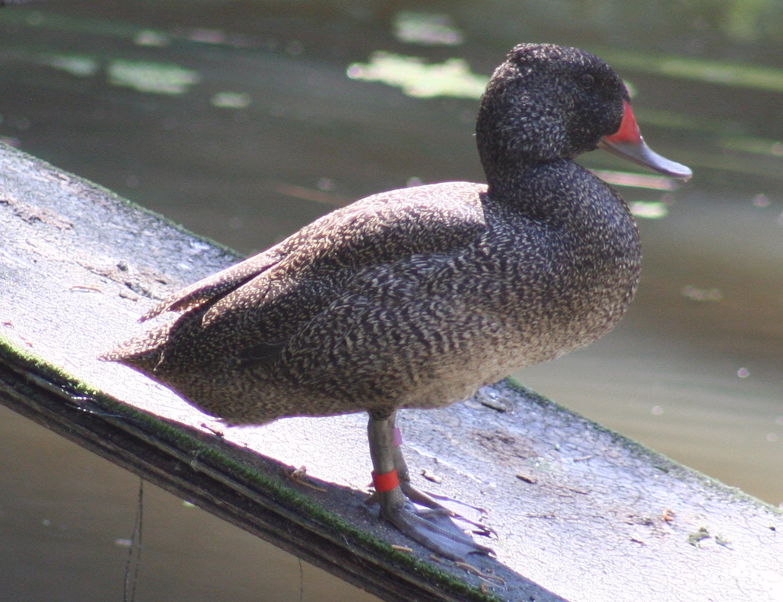 Freckled Duck male in breeding plumage, Hunter Region Botanic Gardens